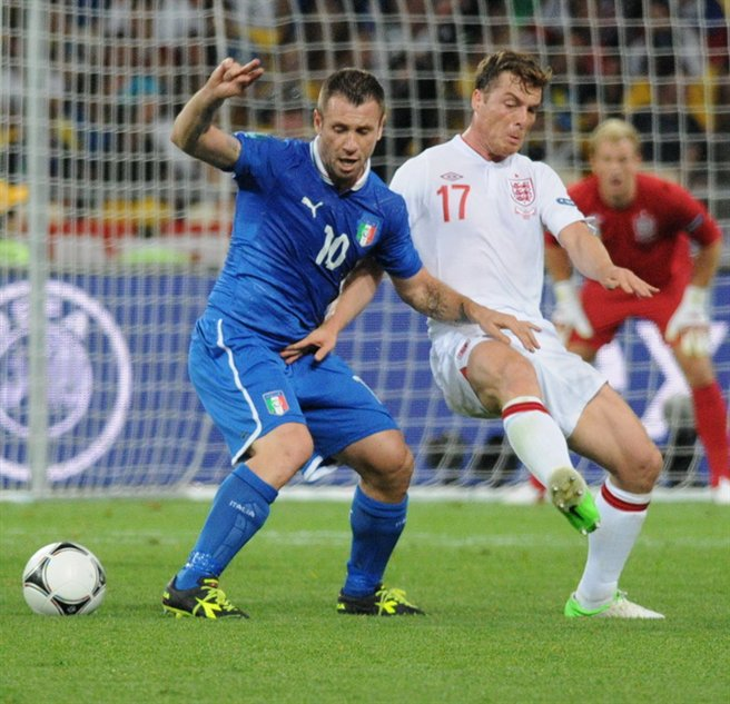 Antonio Cassano and Scott Parker at Euro 2012 match England-Italy